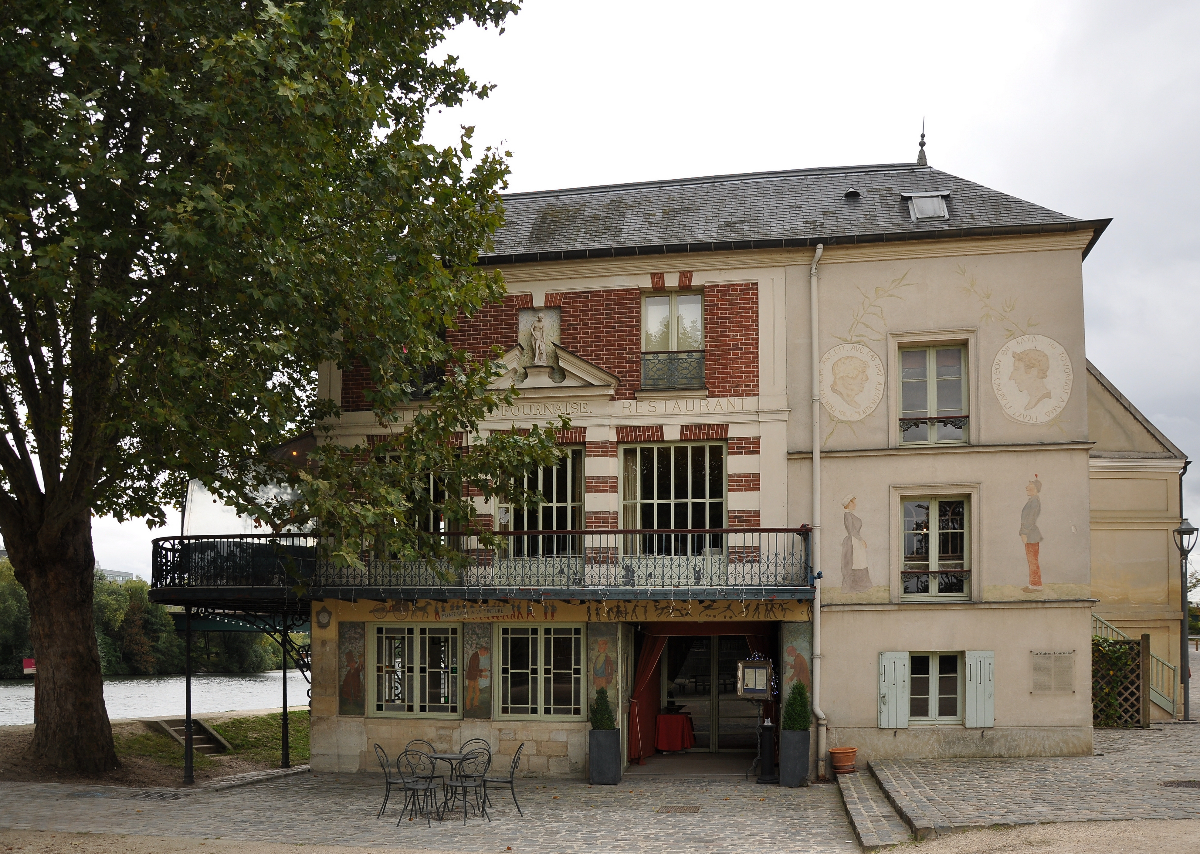 Maison Fournaise in Chatou, department of Yvelines in France. The restaurant was frequented by the impressionist's painters and paints by Auguste Renoir.